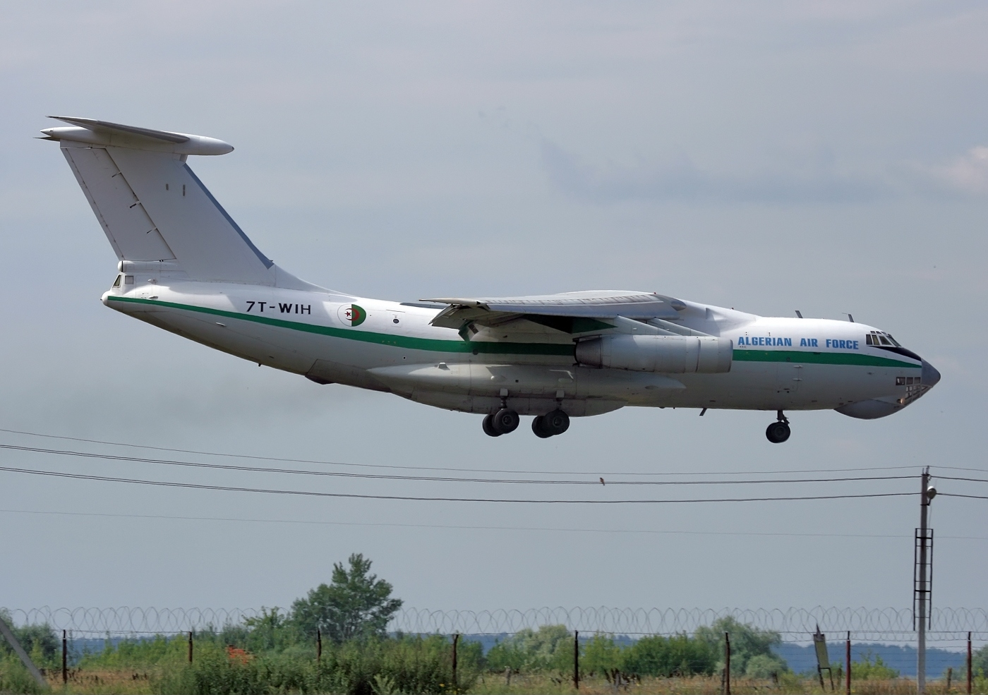 Ilyushin IL-78 (7T-WIH) Algerian Air Force